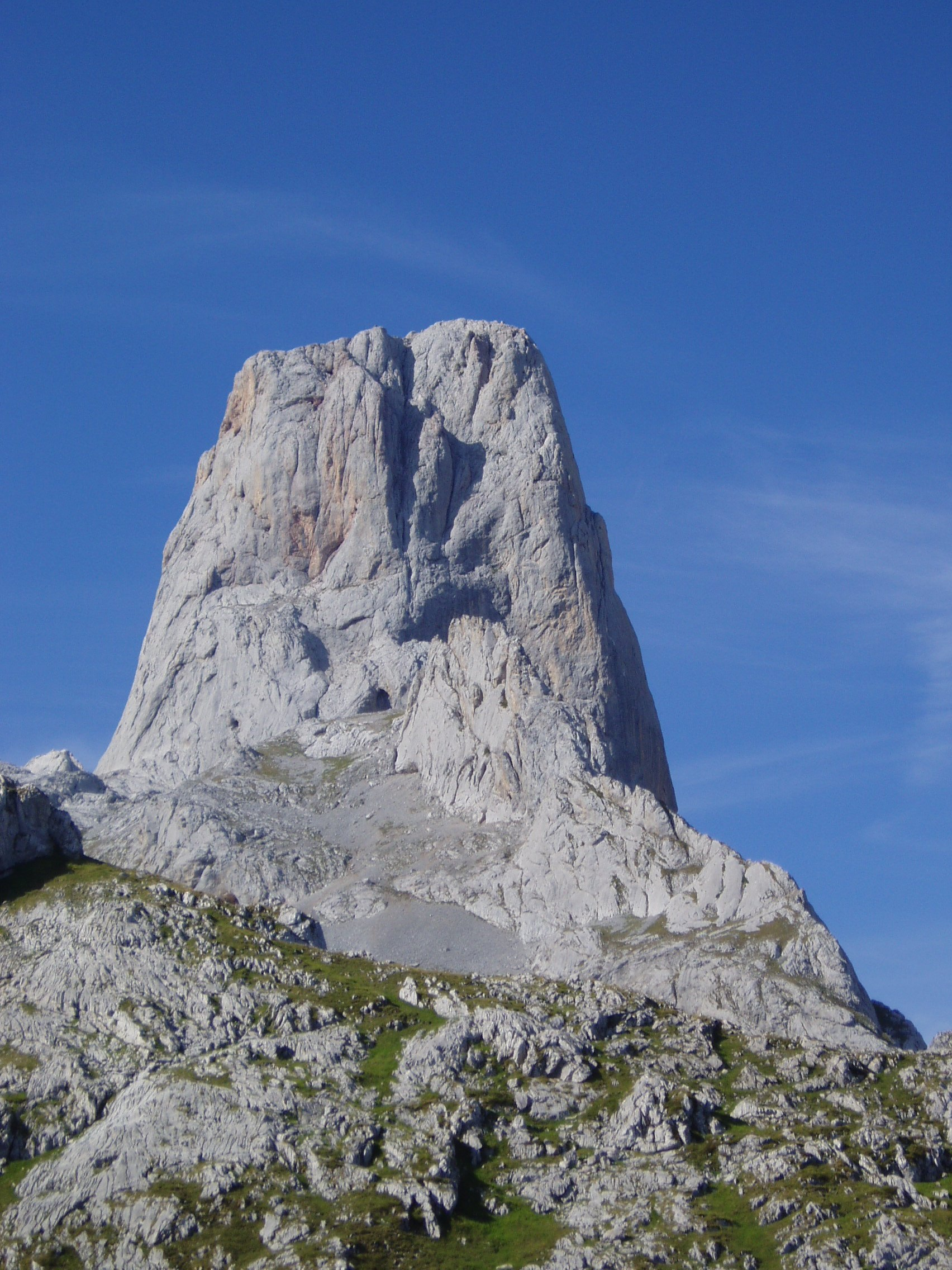 The peak of Naranjo de Bulnes in the Picos de Europa.